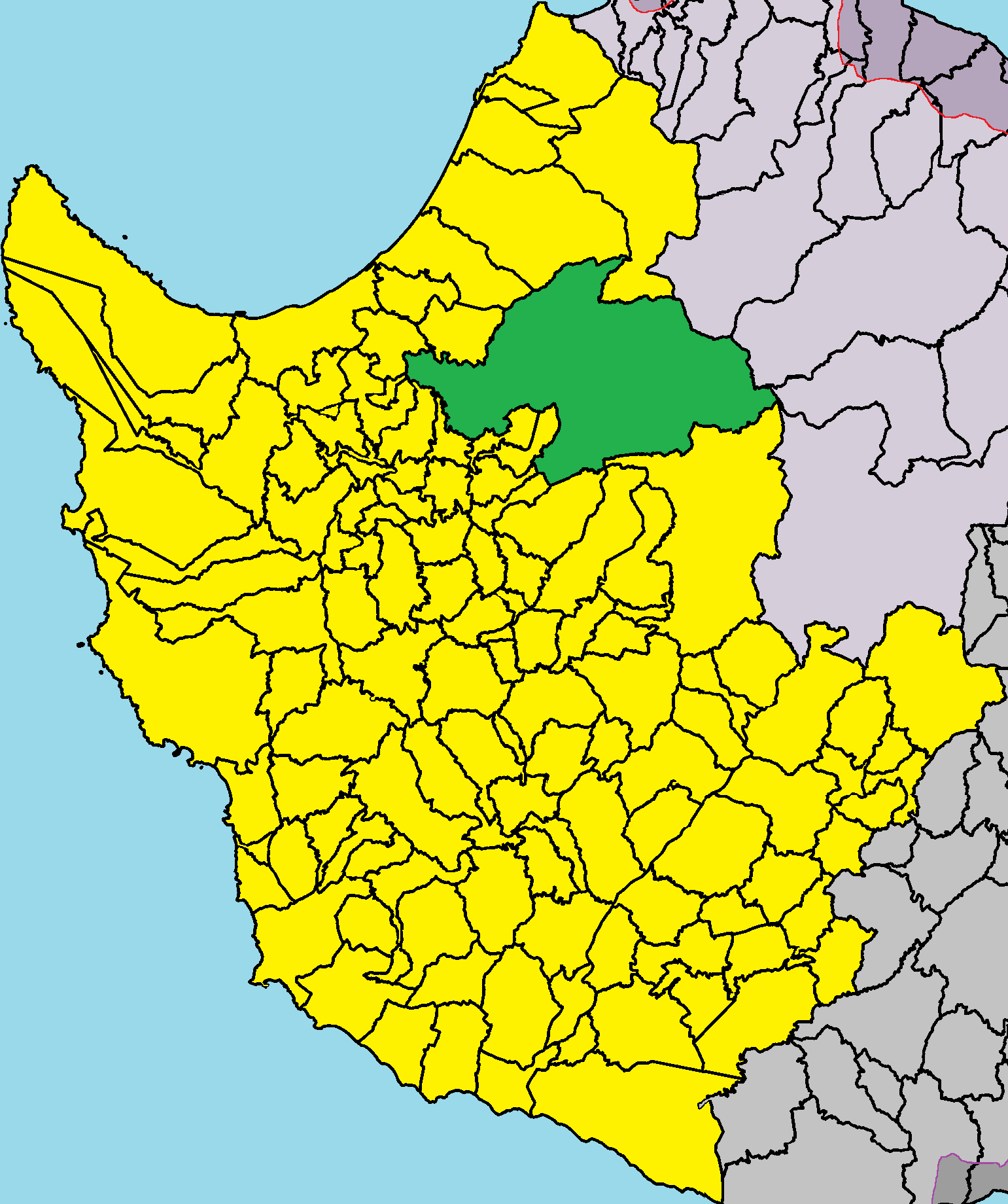 Lysos in Paphos District.